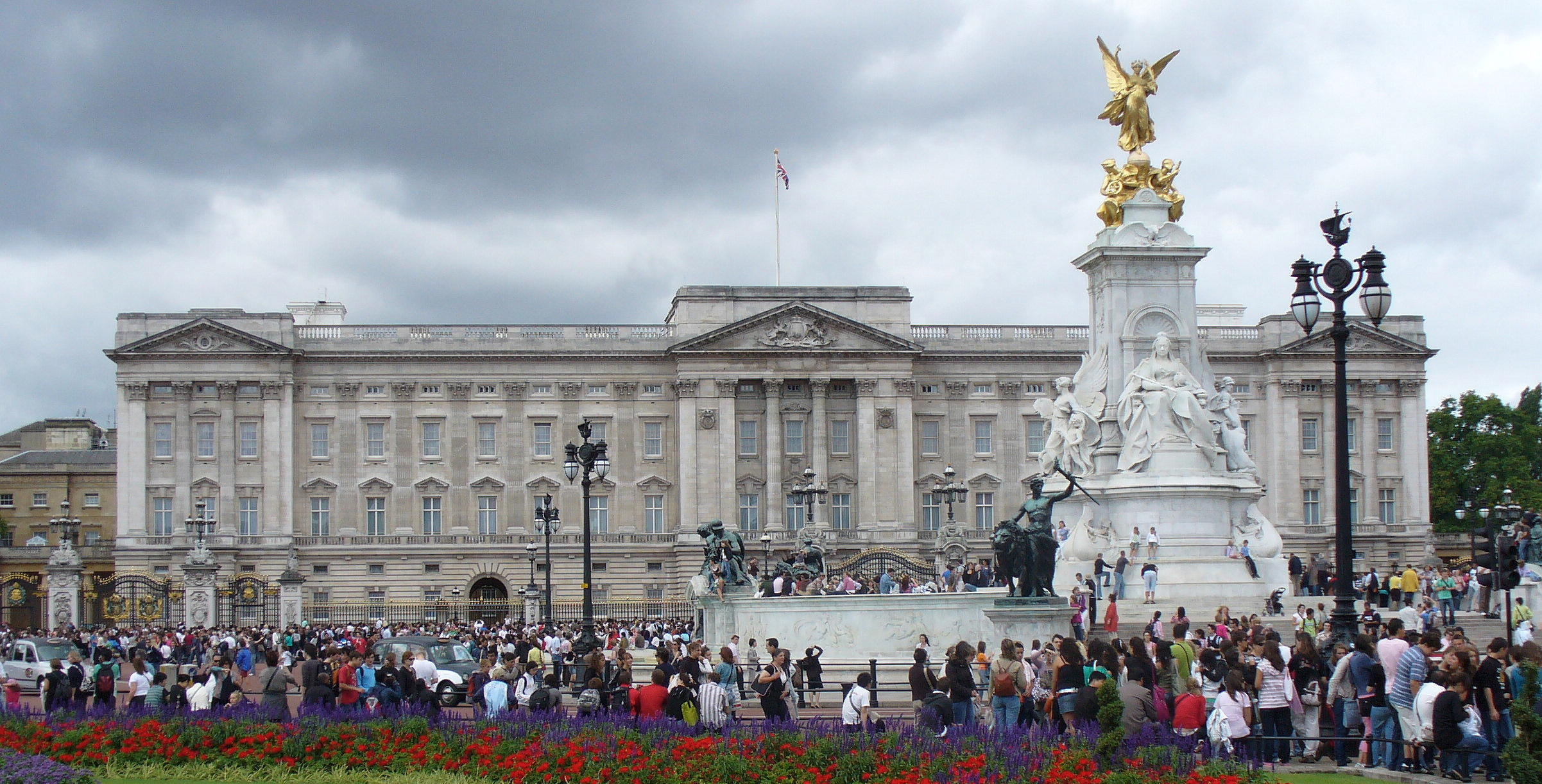 View on Buckingham Palace